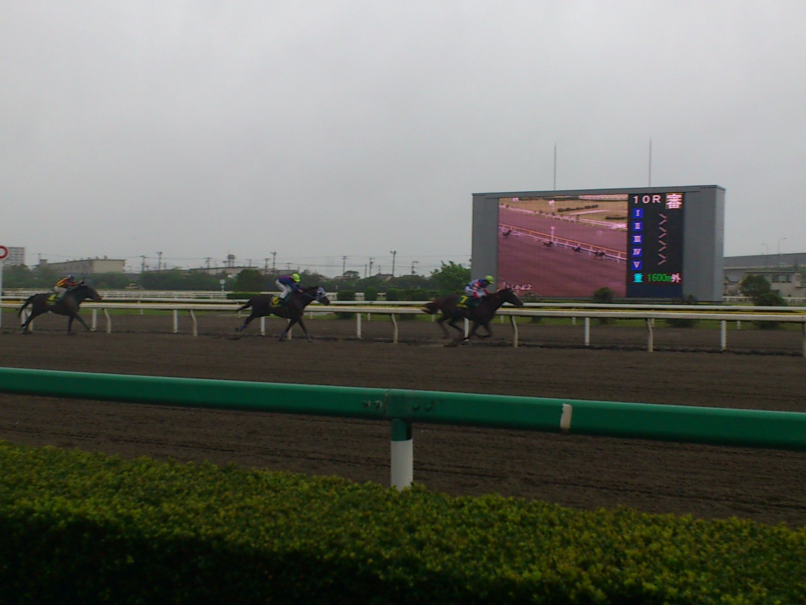 kashiwa kinen 2012